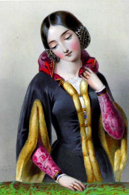 Anne of Bohemia, Queen of England